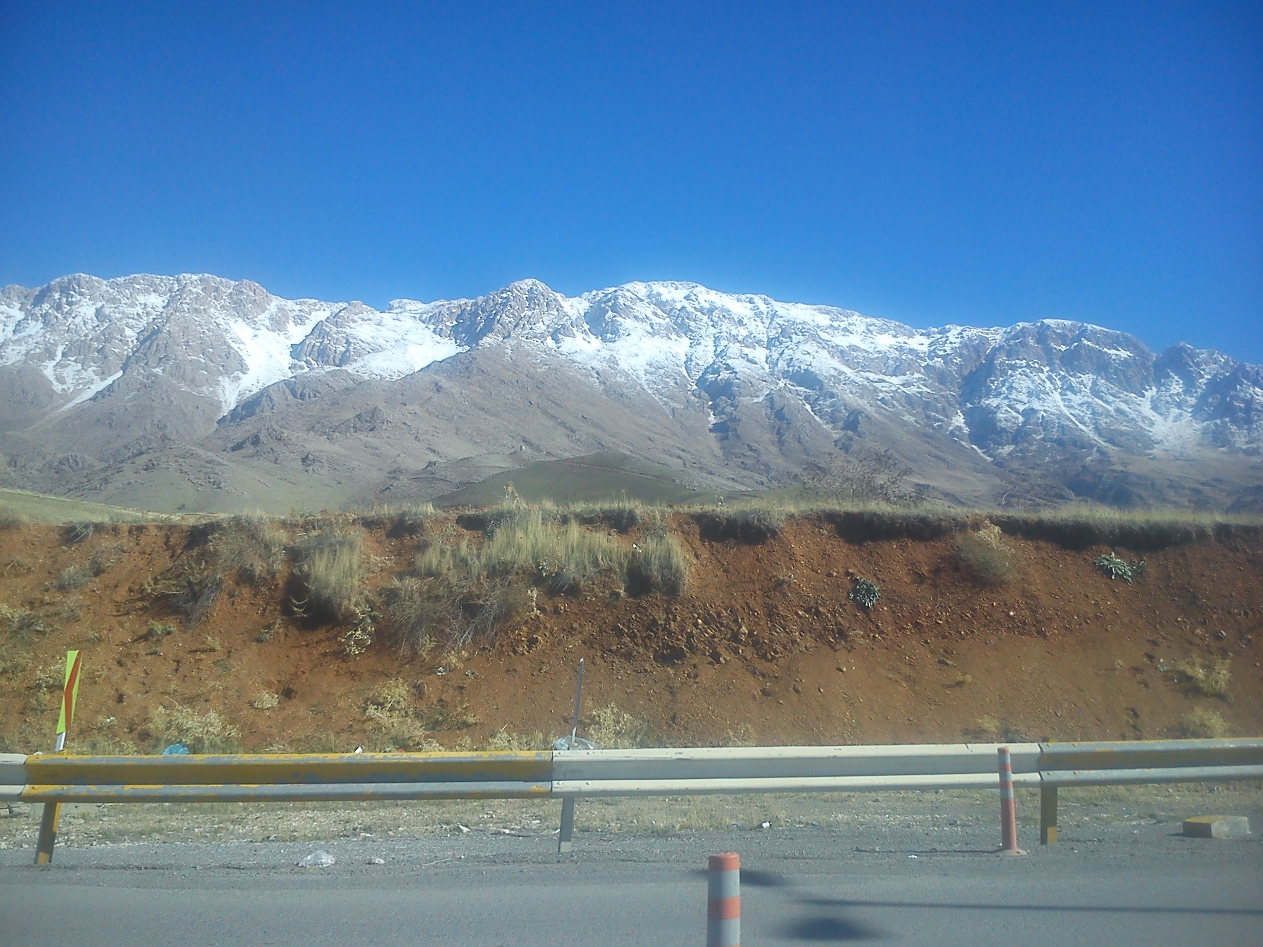 A view of Mount Shaho